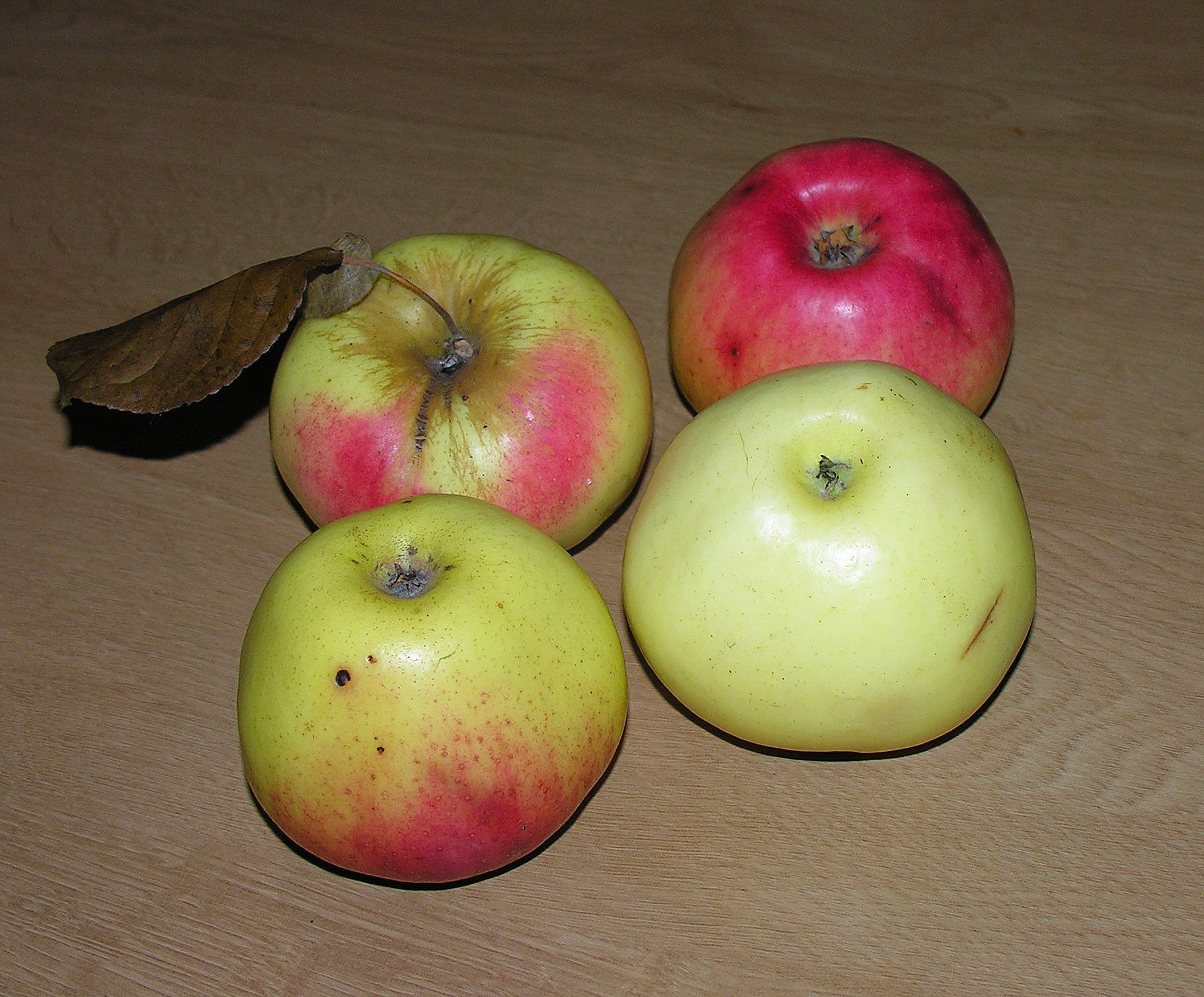 Bogatyr apple sort